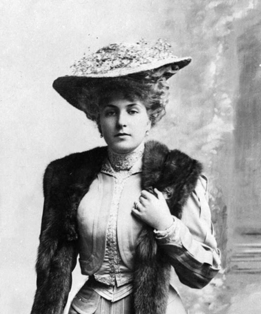 Victoria Eugenie of Battenberg (1887-1969)